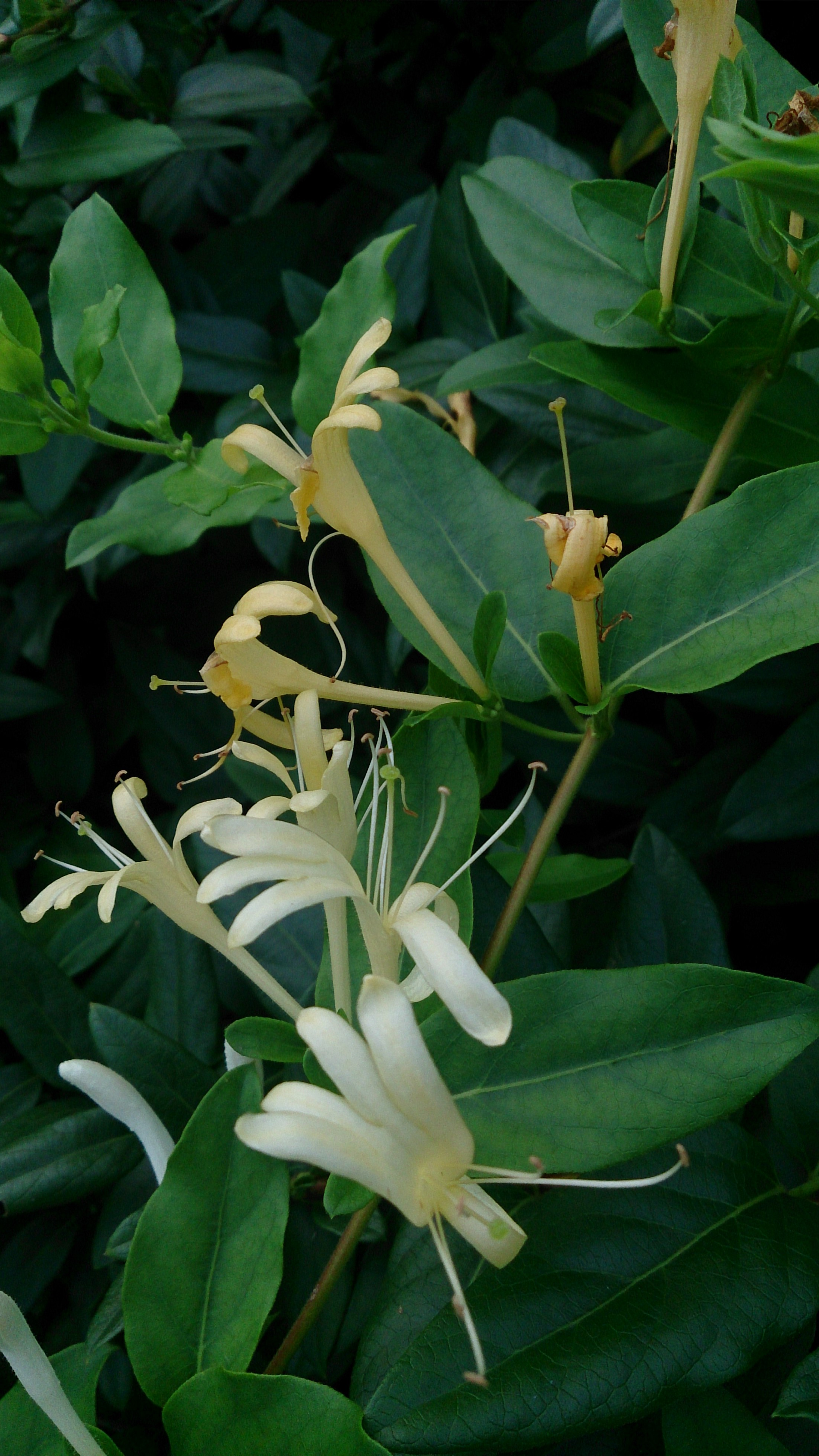 Lonicera japonica. Common names: Japanese Honeysuckle. Jin Yin Hua 金银花 (Chinese). This evergreen trailing twining vine has flowers that are white but quickly fade to yellow, earning the plant the name “Gold and Silver Flower” in Chinese. The leaves and flowers are used in Traditional Chinese Medicine. G6PD deficient patients should avoid consuming this plant.